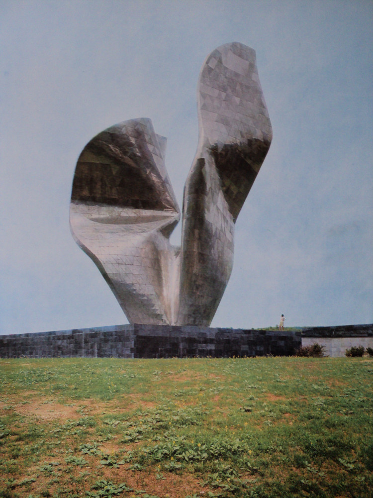 Monument to the Victory of the people of Slavonia. Designed by Vojin Bakić, built in 1968, destroyed in 1992.